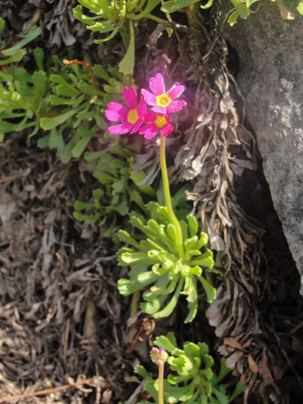 Primula suffrutescens in Tahoe National Forest, California, USA.